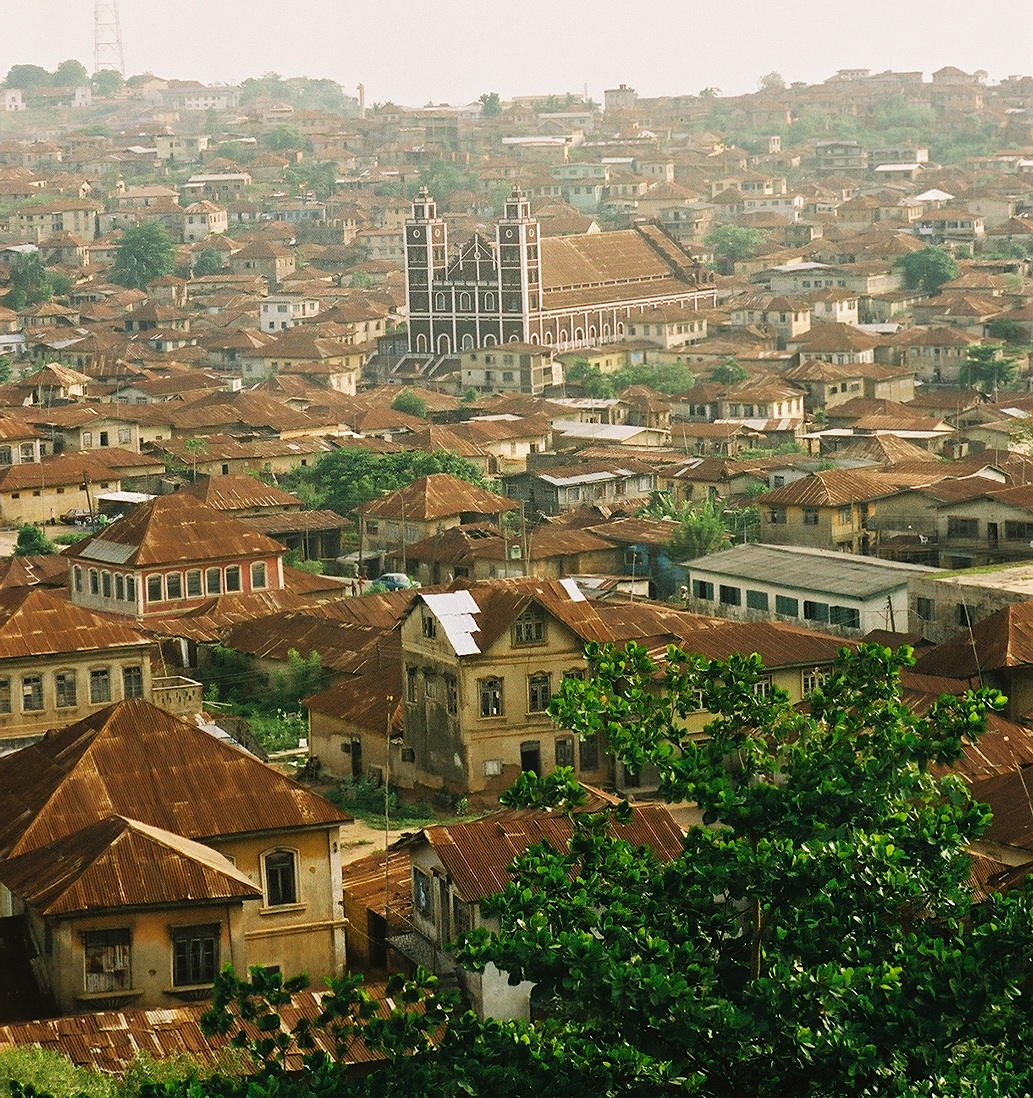 Abeokuta, Nigeria, from the top of Olumo Rock